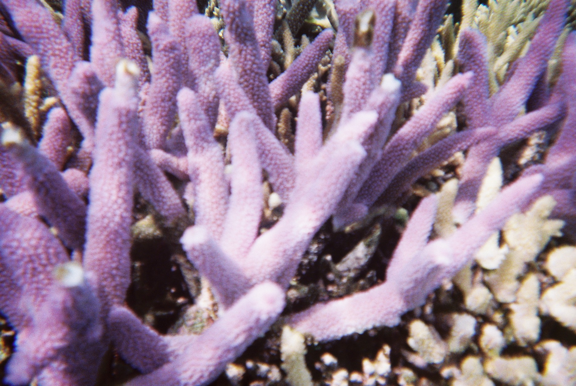 Coral at Mackay Reef, off Cape Tribulation, Queensland, in the Great Barrier Reef Marine Park.